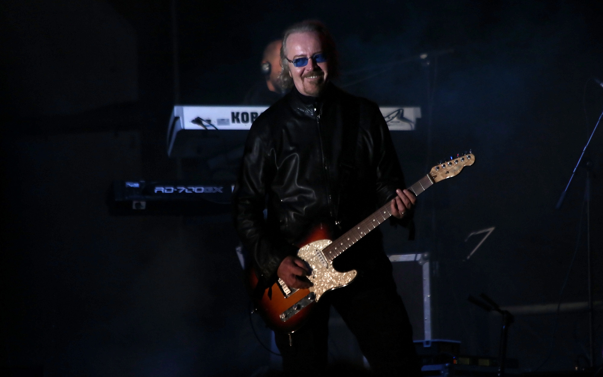 Umberto Tozzi, concert on Michaelerplatz during Wiener Stadtfest (Vienna City Festival) 2014 (Vienna, Austria).